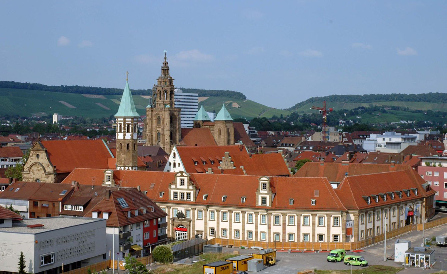 Ministry of Teutonic Knights and church of St. Kilian in Heilbronn as seen from the Götzenturm.